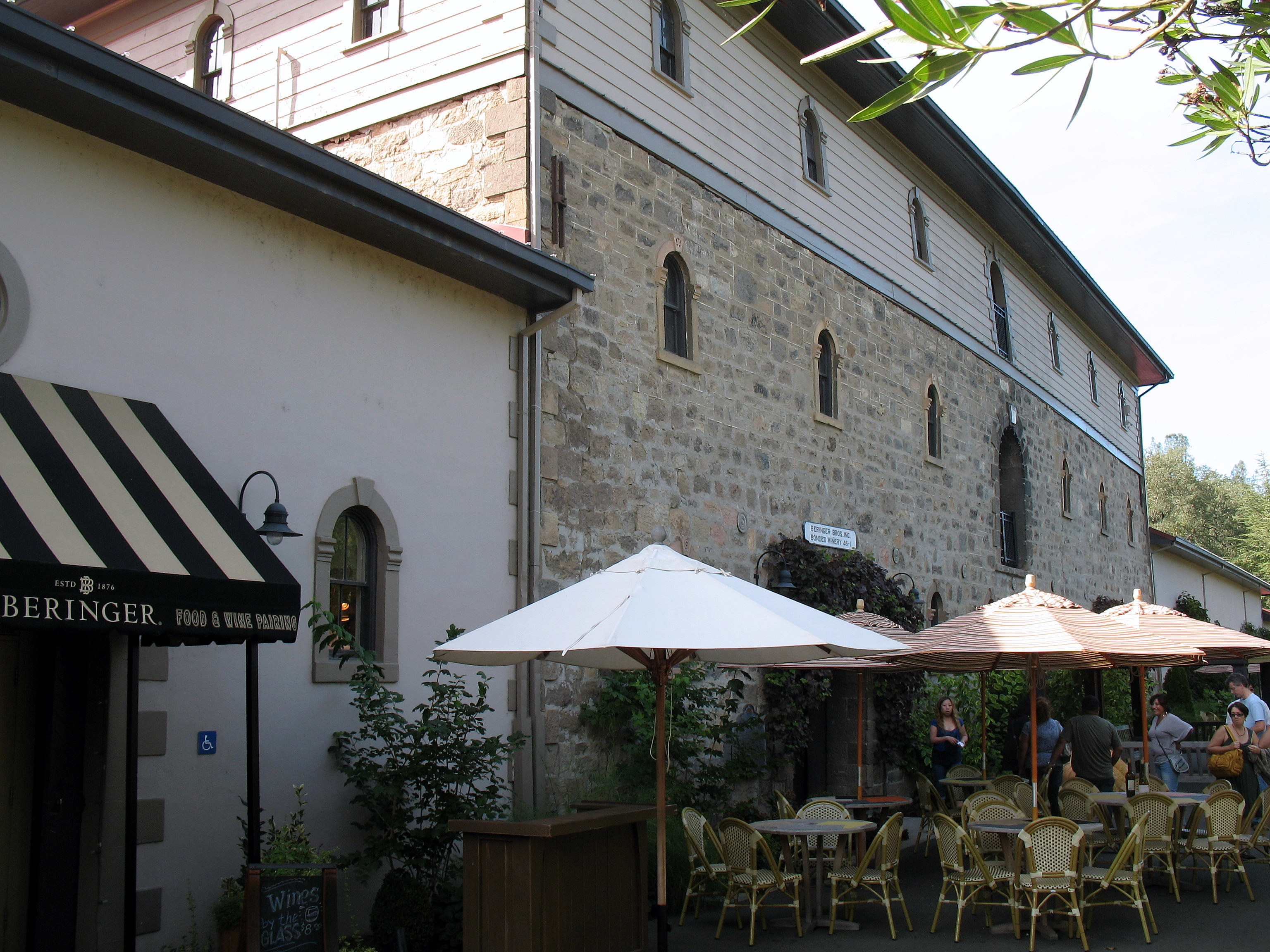 National Register of Historic Places listings in Napa County, California. Beringer Brothers-Los Hermanos Winery, 2000 Main St., St. Helena, California